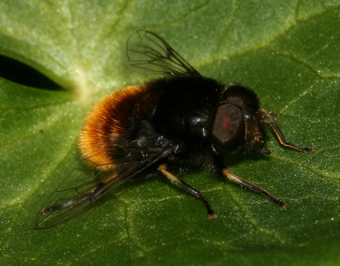 Crichton, Midlothian, Scotland NT378615